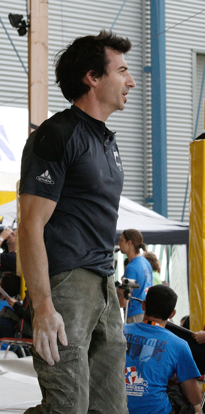 Stephane Julien during the semi-finals at the IFSC Boulder Worldcup Vienna 2010.